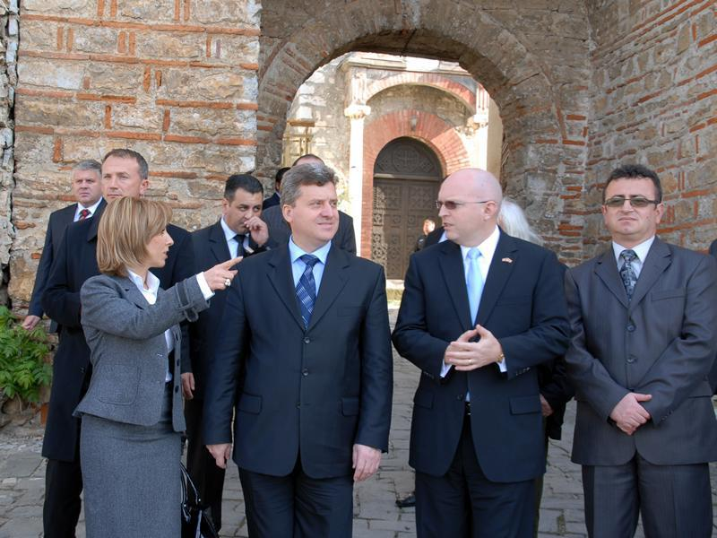 US ambassador Reeker atthe site of the Holy Mother of God “Peribleptos” Church with macedonian president Ivanov, Minister of Culture Kančeska-Milevska and Municipality of Ohrid Council President Duško Jakovčeski.